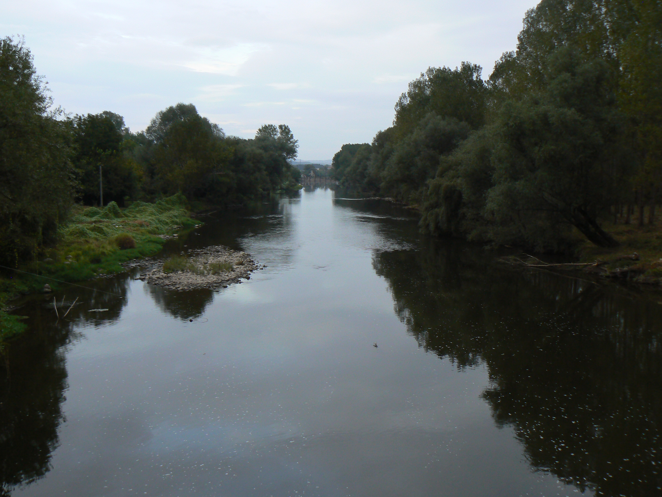 Iskar River passing near the town of Mezdra, Bulgaria